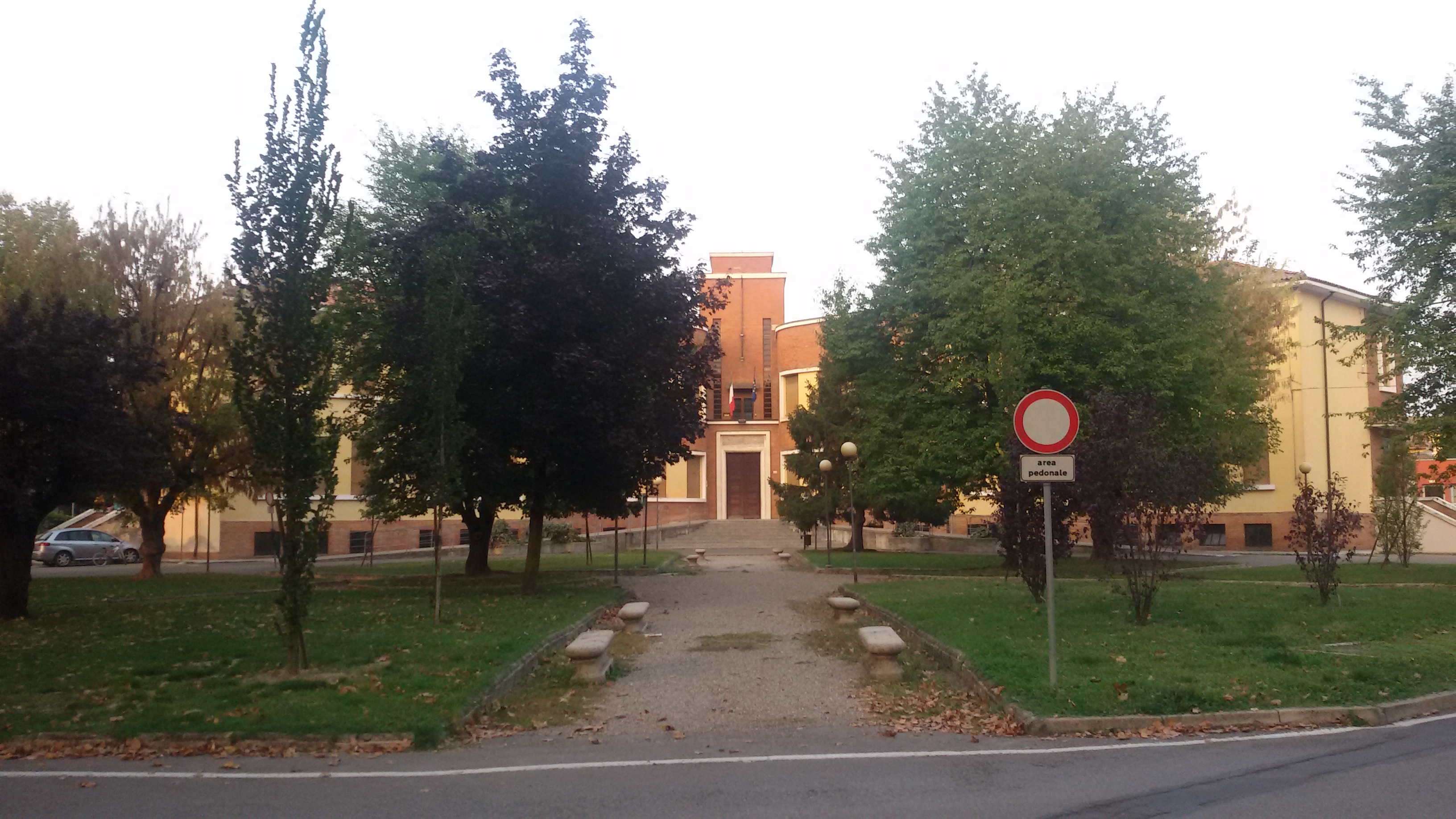 Primary schools